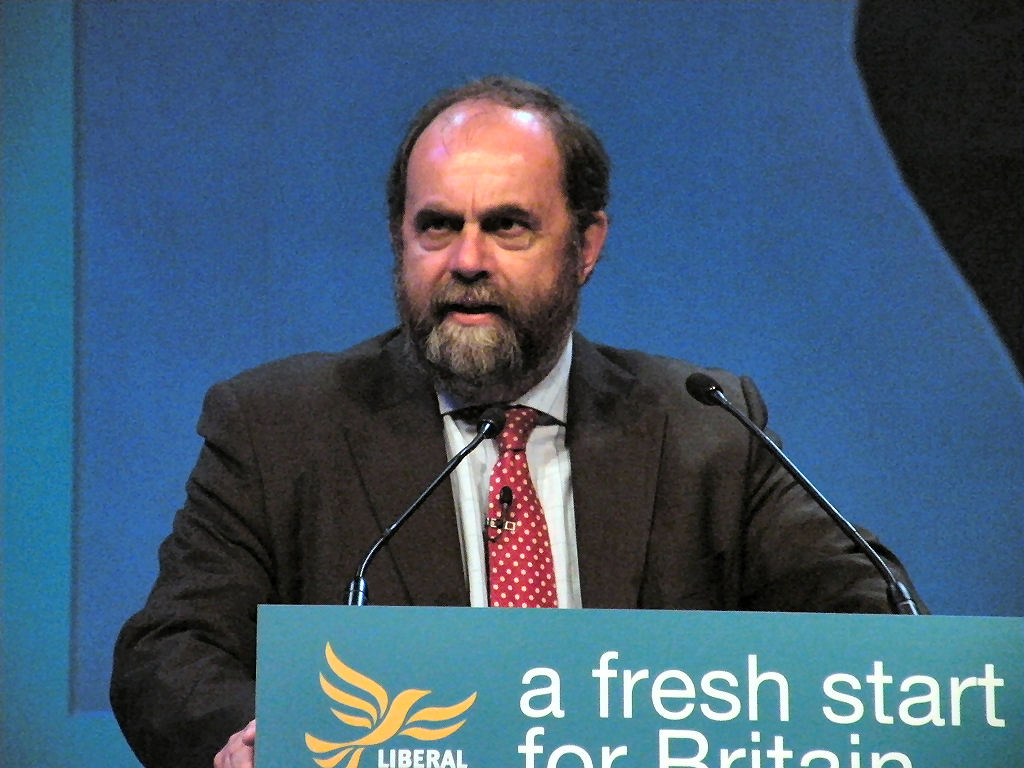 David Heath MP addressing a Liberal Democrat conference in the Bournemouth International Centre